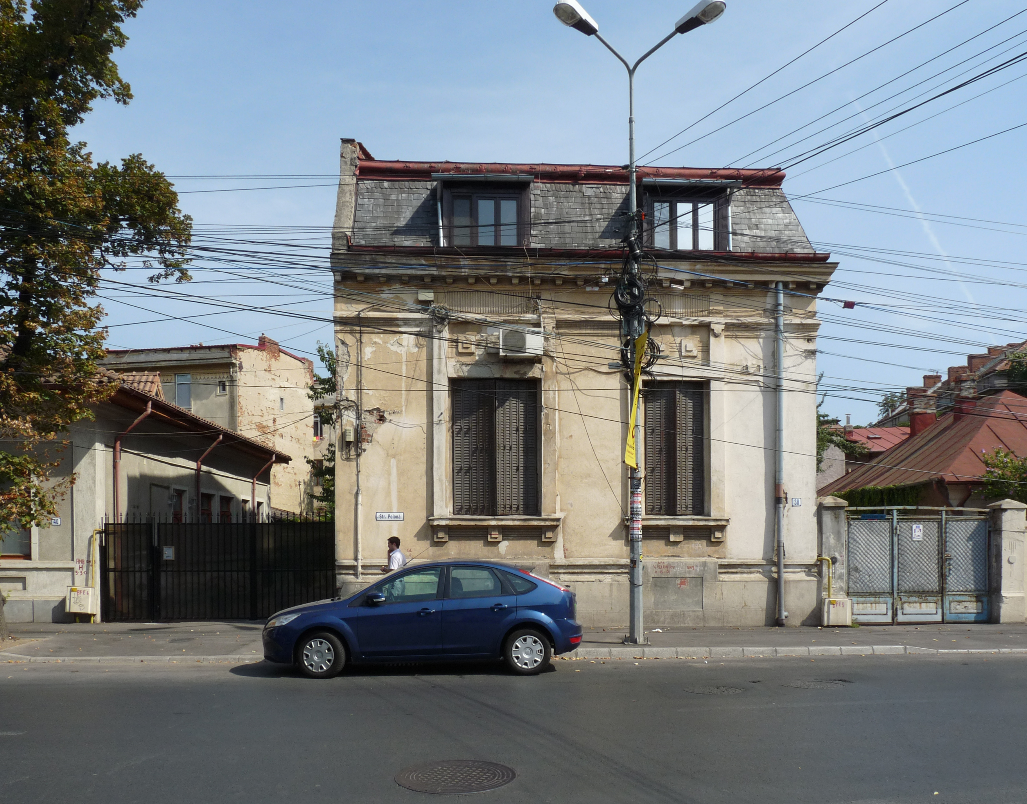 Historical building in Bucharest, Romania, on Polonă street 38